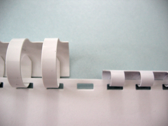 An example of a comb bound spine